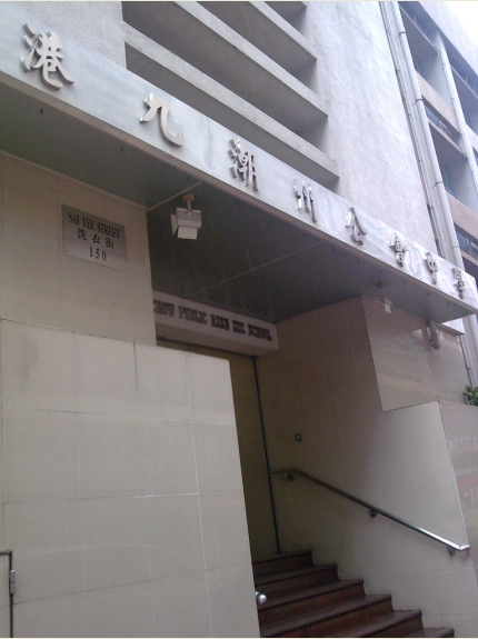 Hong Kong and Kowloon Chiu Chow Public Association Secondary School is located at 150 Sai Yee Street, Mongkok, Kowloon, Hong Kong.